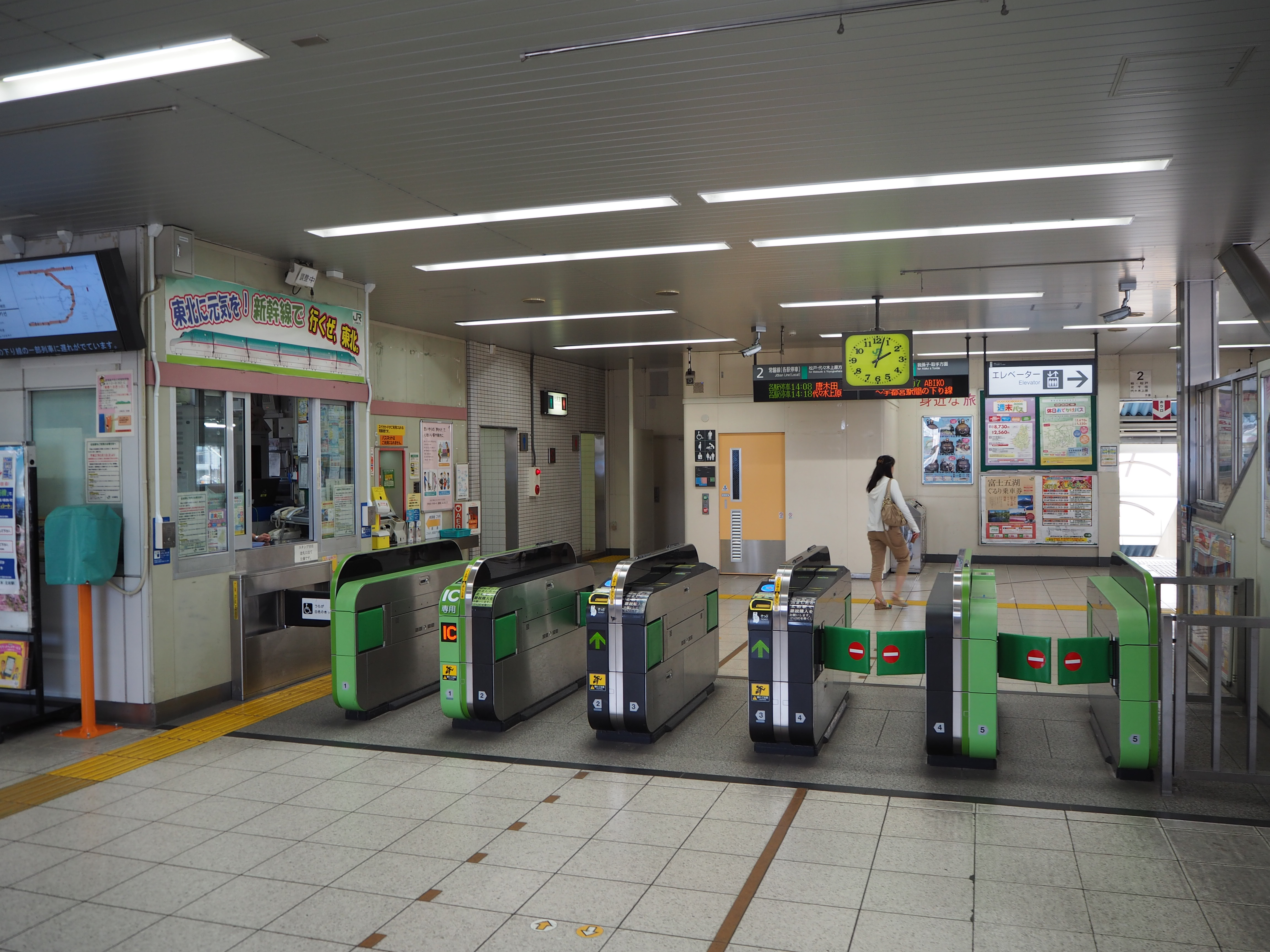 Ticket barriers of Kita-kashiwa Station